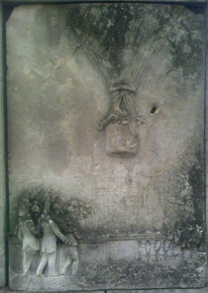 Janssen taking off from Paris, 1870.